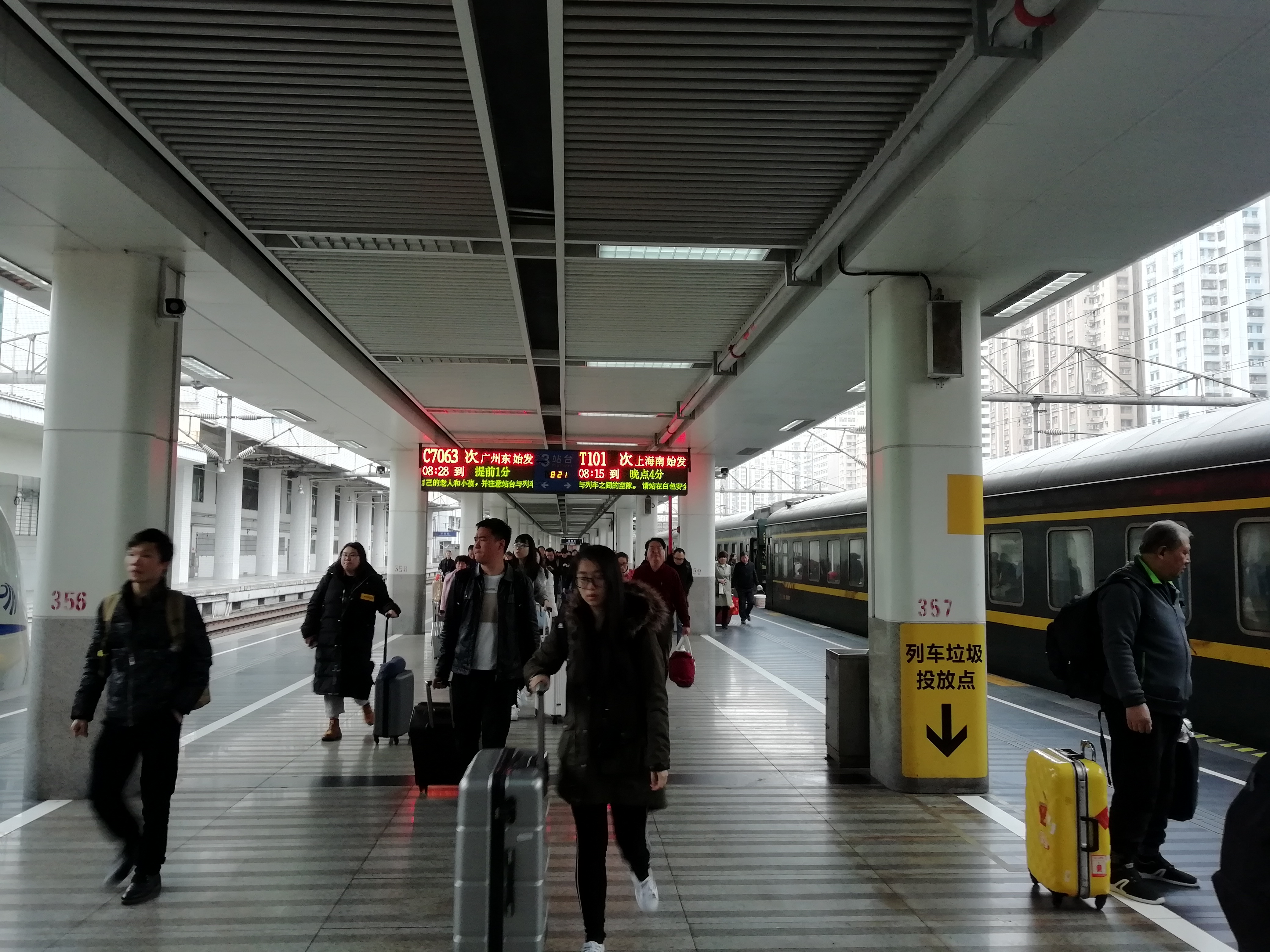 Platform 3 of Shenzhen Railway Station. T101 is arrived just now. 中文（中国大陆）: 深圳站3站台，T101次列车刚刚进站。